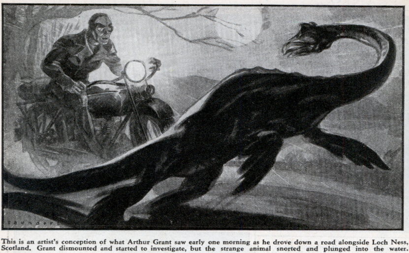 Illustration of the alleged sighting of Loch Ness monster by Arthur Grant in January 1934.